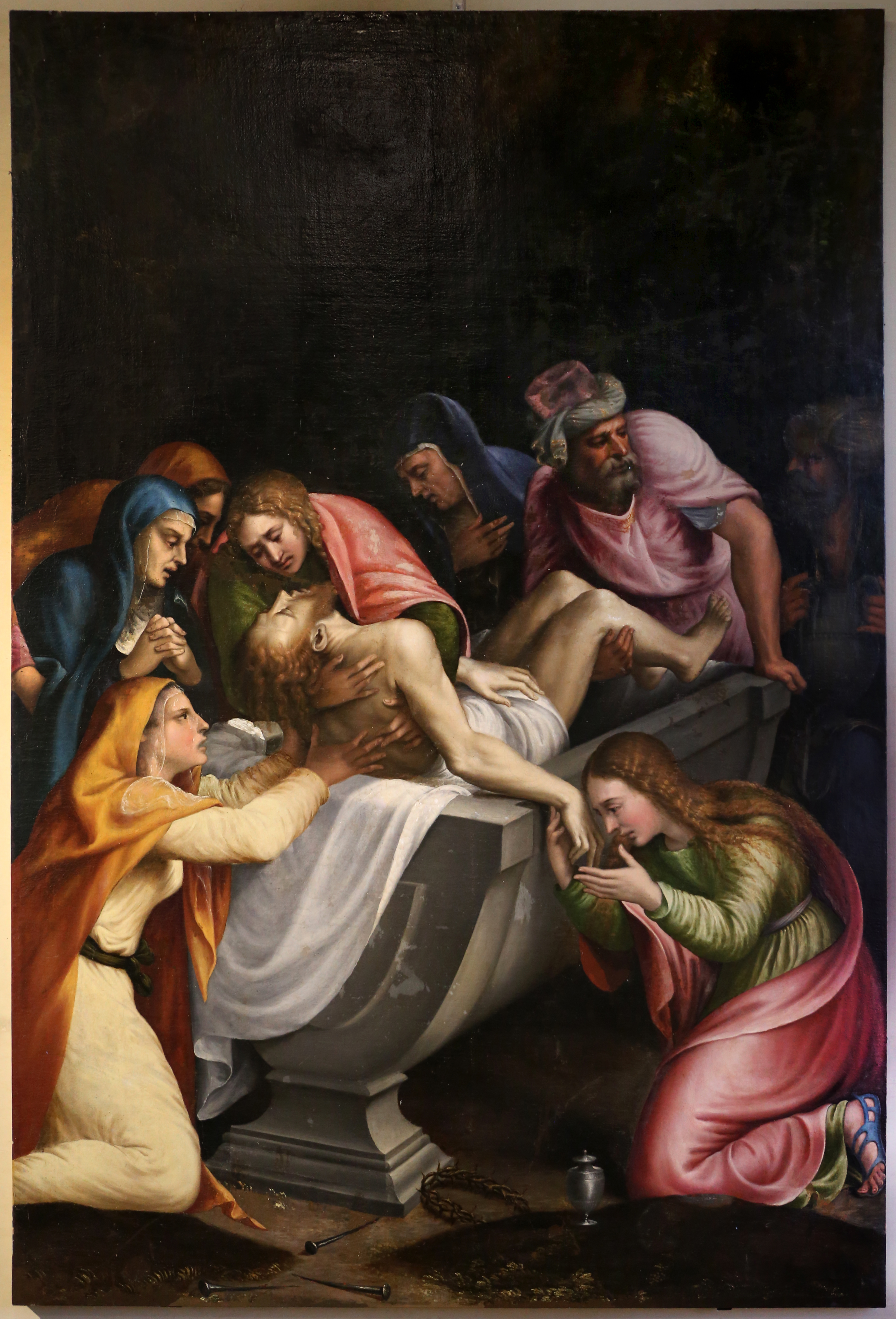 Collections of Palazzo Ducale (Mantua)